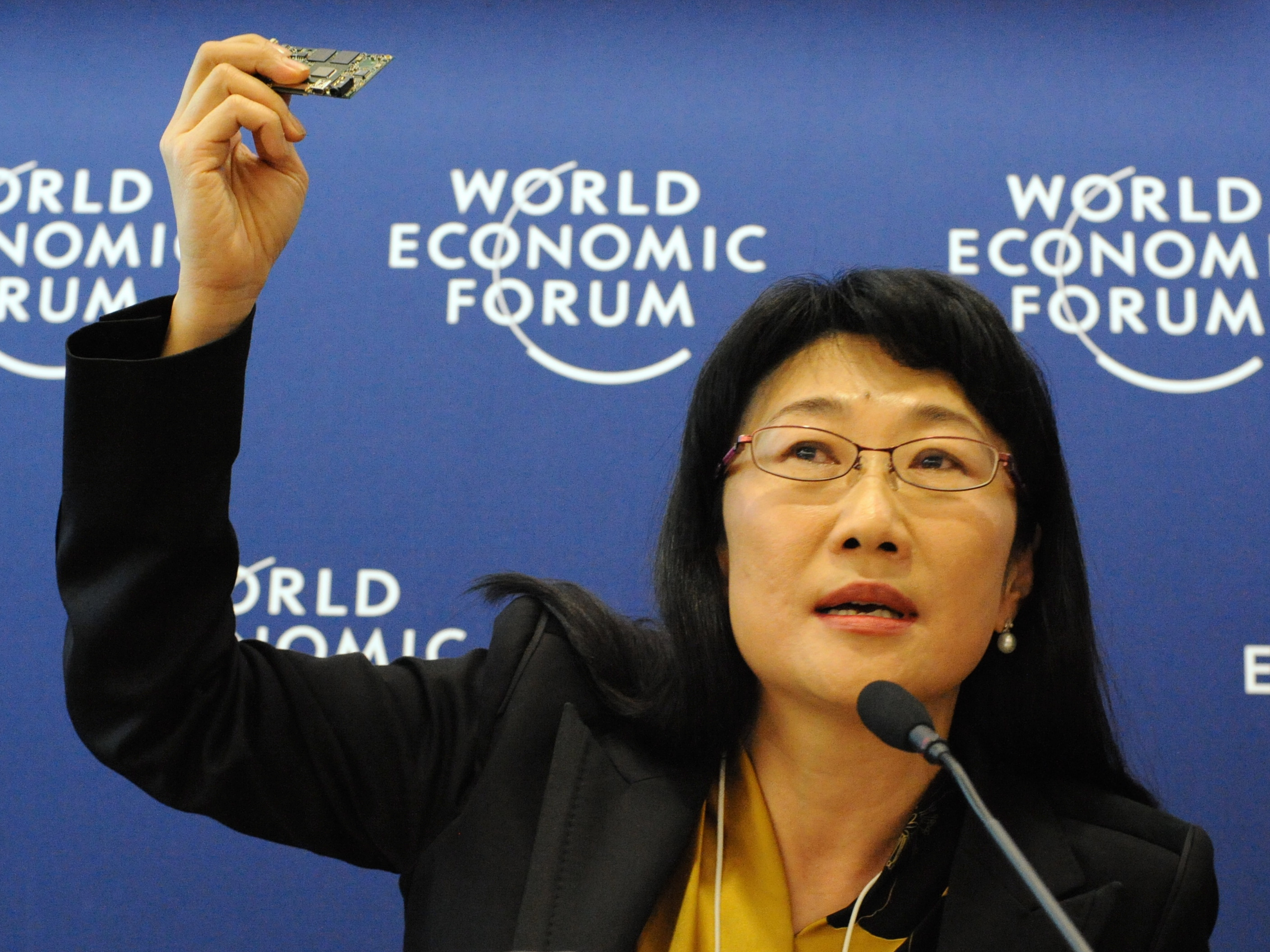 Cher Wang, the chair of HTC and VIA 中文（台灣）: 王雪紅，威盛電子暨宏達電子董事長。 Bân-lâm-gú: Ông Suat-hông; Ui-sīng Tiān-tsú kah Hông-ta̍t Tiān-tsú ê táng-sū-tiúnn. 王雪紅，威盛電子佮宏達電子的董事長。HTC Chairwoman, Cher Wang, shows off new mobile phone mother board